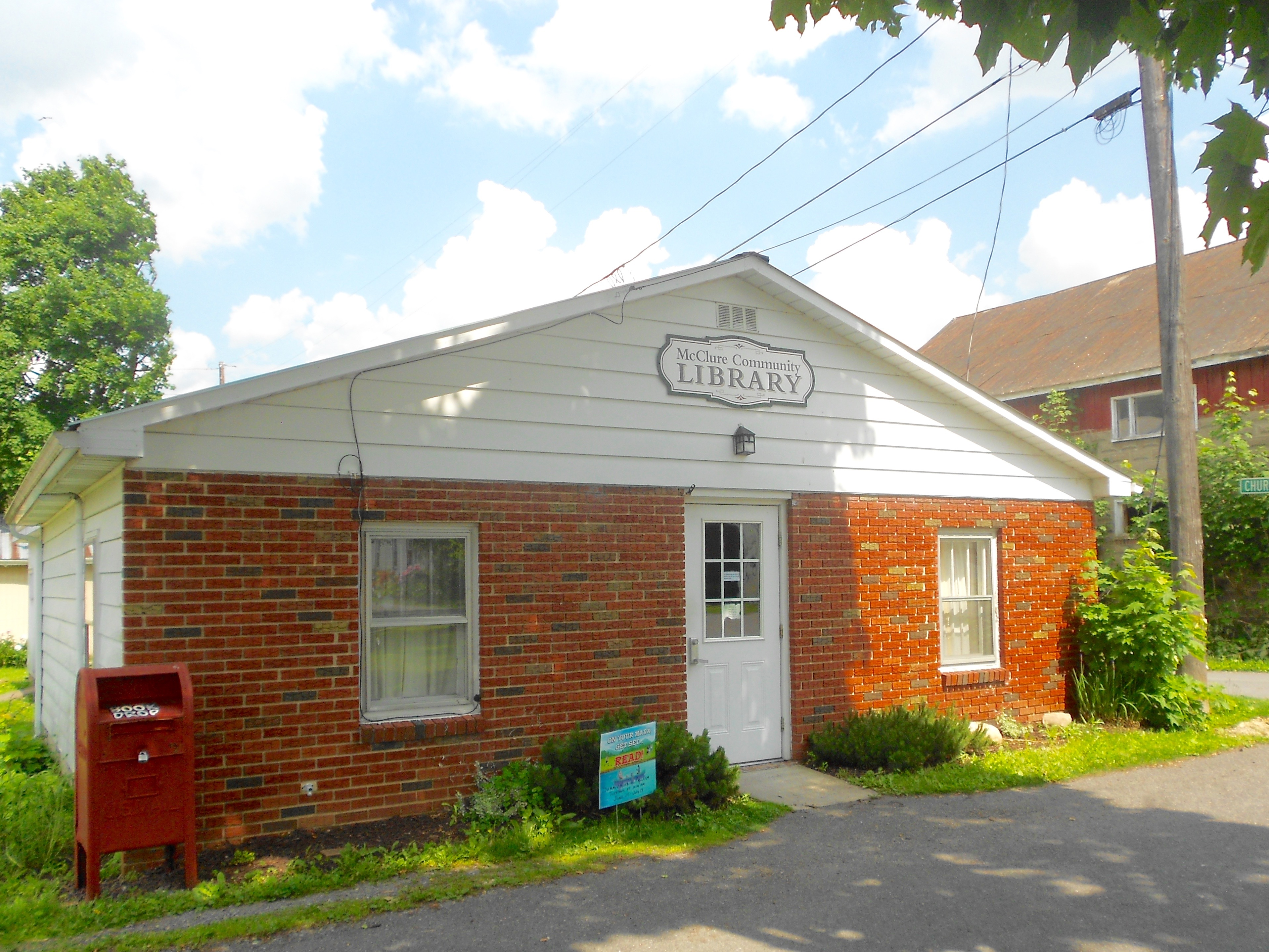 McClure Community Library in McClure, Snyder County, Pennsylvania at the corner of Library Lane and Church Lane (I'm serious)